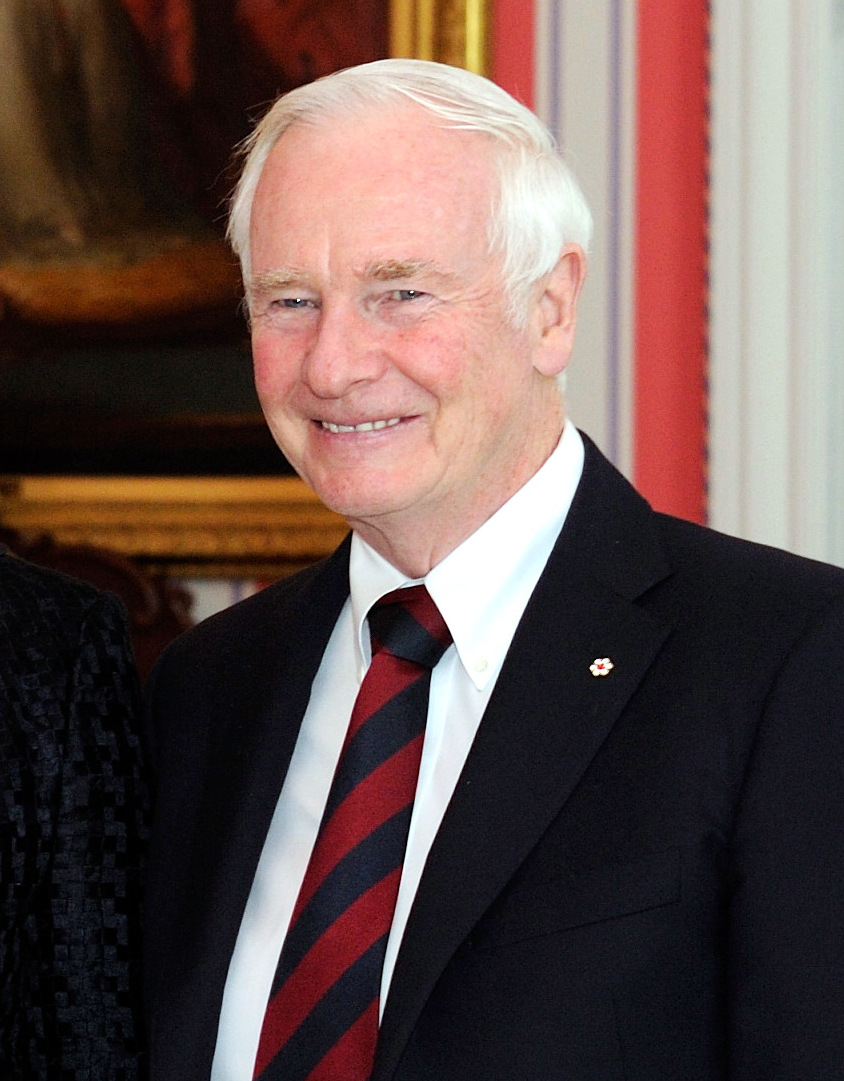 Estonian Ambassador Marina Kaljurand in Ottawa, Ontario, Canada, presenting her credentials to Canadian Governor General David Johnston.